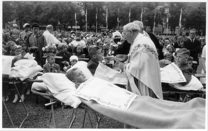 View of Vrijthof during the 1955 Pilgrimage of the Relics (Heiligdomsvaart) in Maastricht, Netherlands. The 10 or 15-day religious festival is celebrated in Maastricht every seven years and dates back to the Middle Ages. Here bishop Lemmens and other priests bring the Holy Communion to sick children. Photo: Municipal Archives Maastricht (GAM 31384), part of RHCL collections.